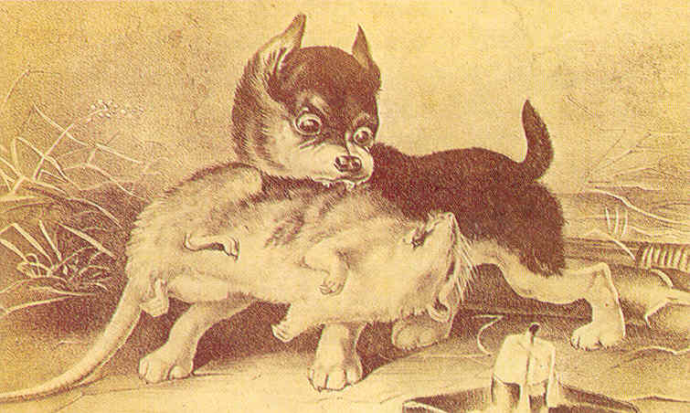 Title:Ratting Contest, Engraving circa 1845 Subject:Small dog rat-baiting